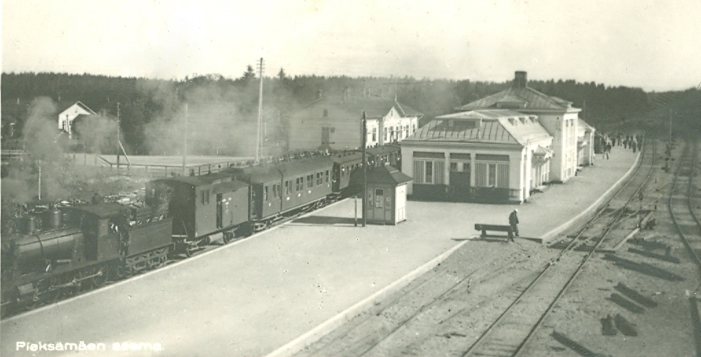 Pieksämäki railway station in 1925 as depicted in a postcard.